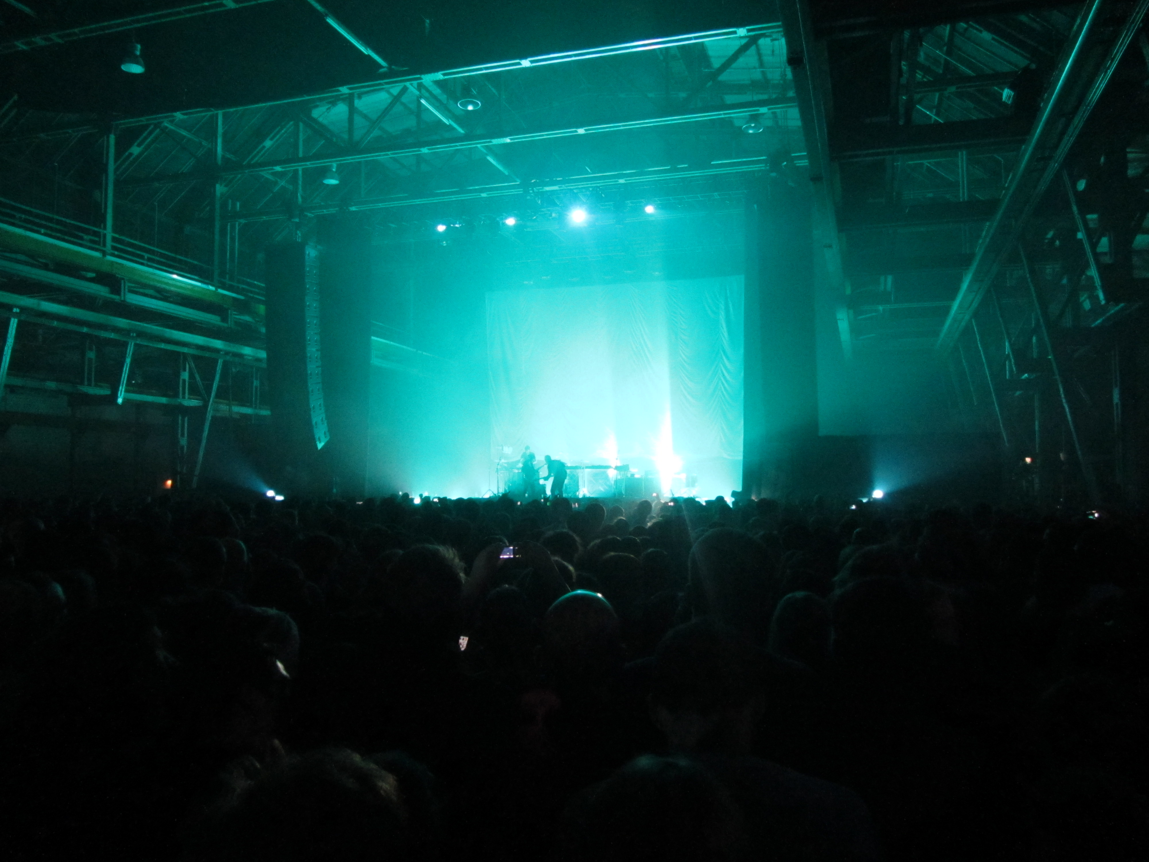 Inside Munich's nightclub Zenith in 2012.